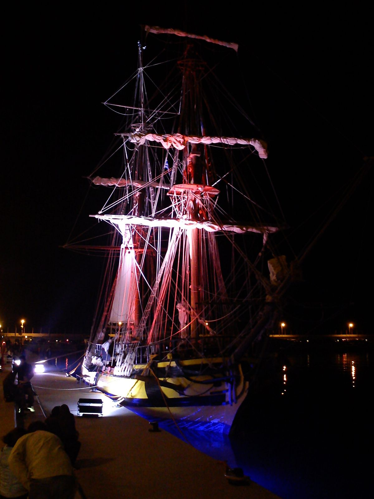 Brig La Grace night before name giving ceremony in Flisvos Marina, Greece.